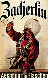 Advertising campaign for Zacherlin around 1900 Noise reduction and downsizing